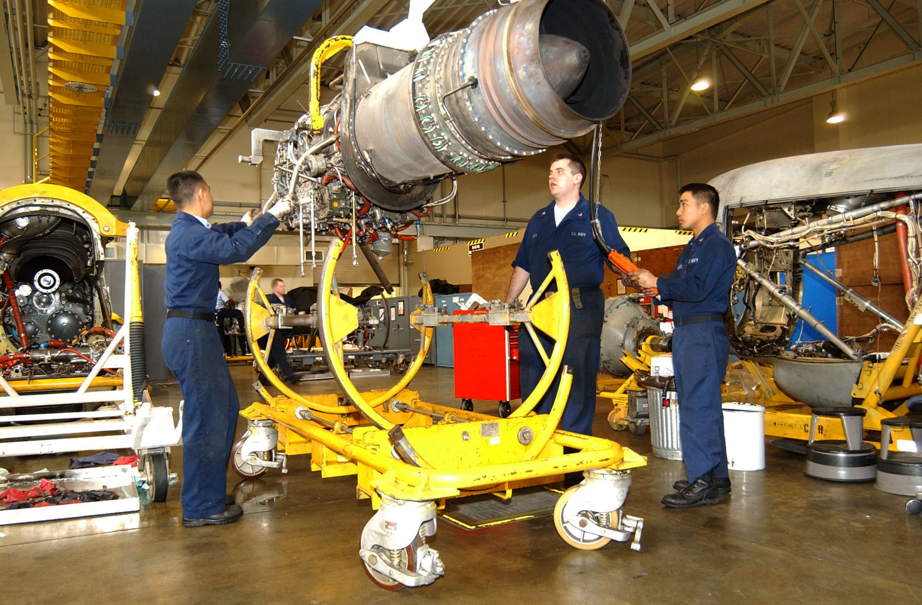 Naval Air Facility, Misawa Japan (Mar. 11, 2002) -- Aviation Machinist Mate 2nd Class Samnang Cheng, Aviation Machinist Mate 3rd Class Charles Cobb and Aviation Machinist Mate 2nd Class Manolito Pimentel remove the power section of a P-3 “Orion” engine. Cheng and Pimentel are attached to the Aircraft Intermediate Maintenance Department (AIMD), Naval Air Facility Misawa, Japan. Cobb is on a scheduled six-month deployment to Japan with Patrol Squadron Four Zero (VP-40). U.S. Navy photo by Photographer’s Mate 3rd Class Nicholas Fry. (RELEASED)